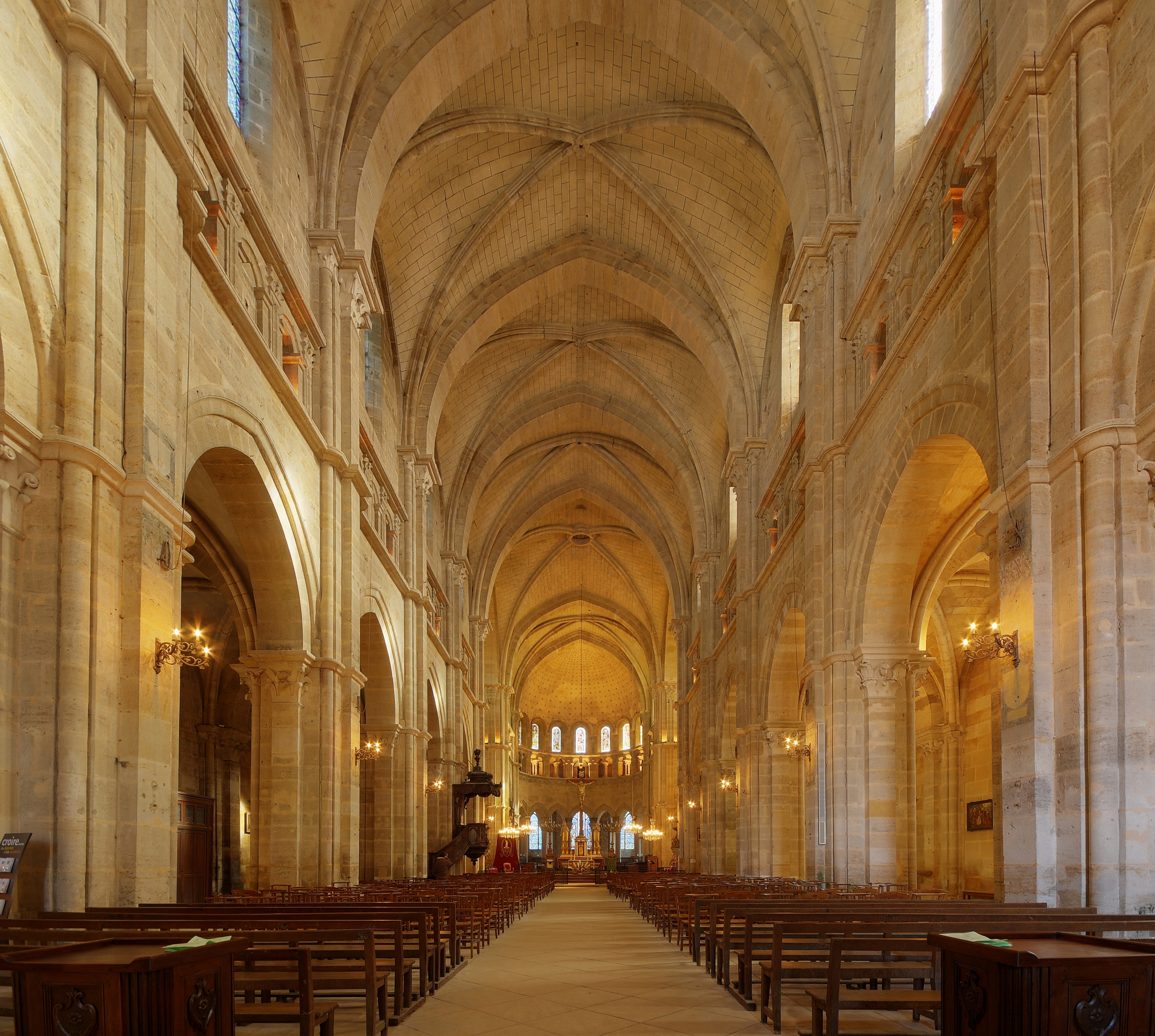 This photograph was taken with a Nikon D300 Cathédrale Saint-Mammès de Langres : nef (HDR).